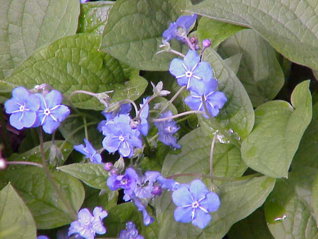 Species: Omphalodes verna Family: Boraginaceae Image No. 1